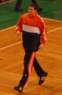 Boston Celtics home game: Austin Croshere warms up